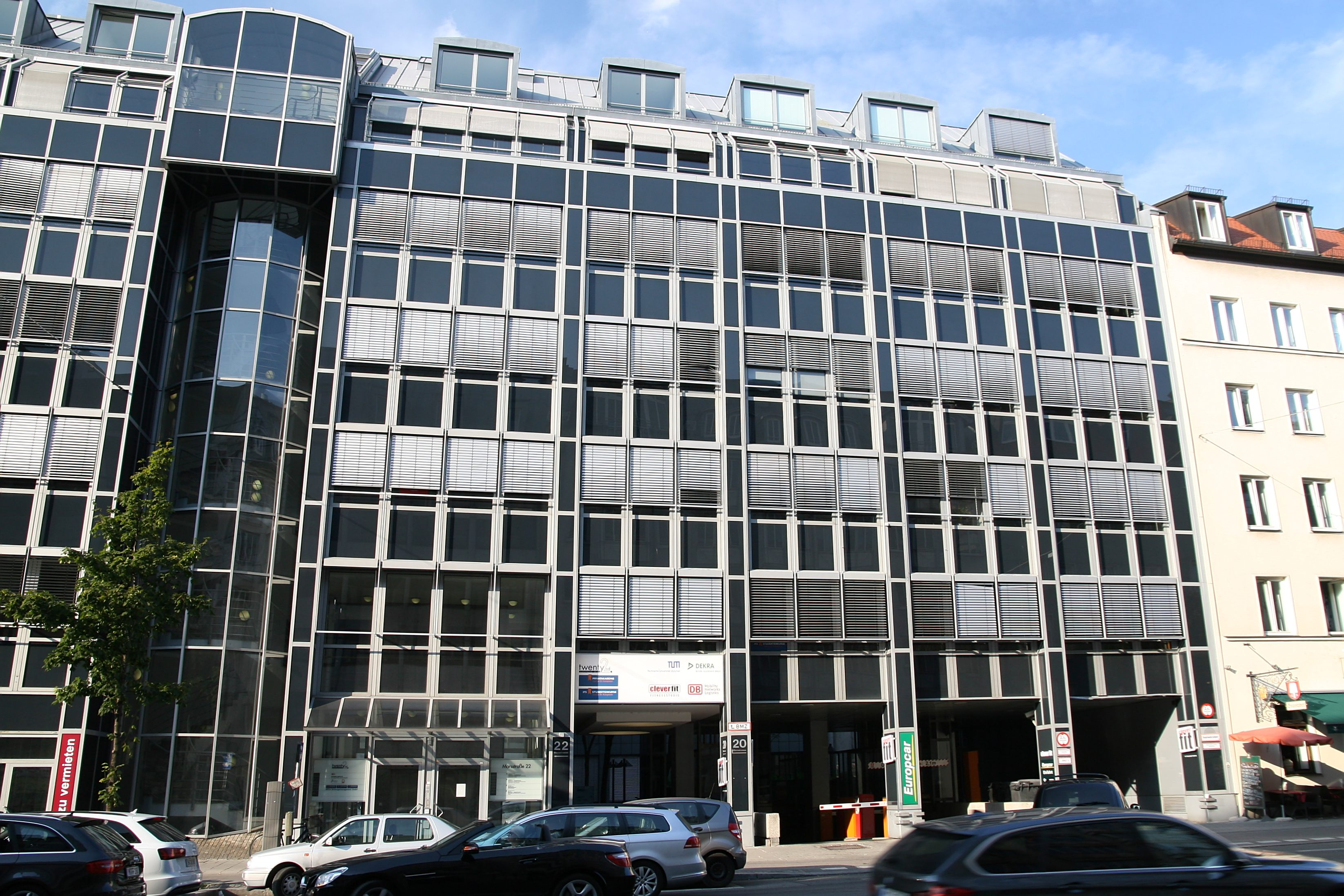 The building in Marsstraße 20-22 in munich, where among other offices the Center for Digital Technology and Management resides at the moment.